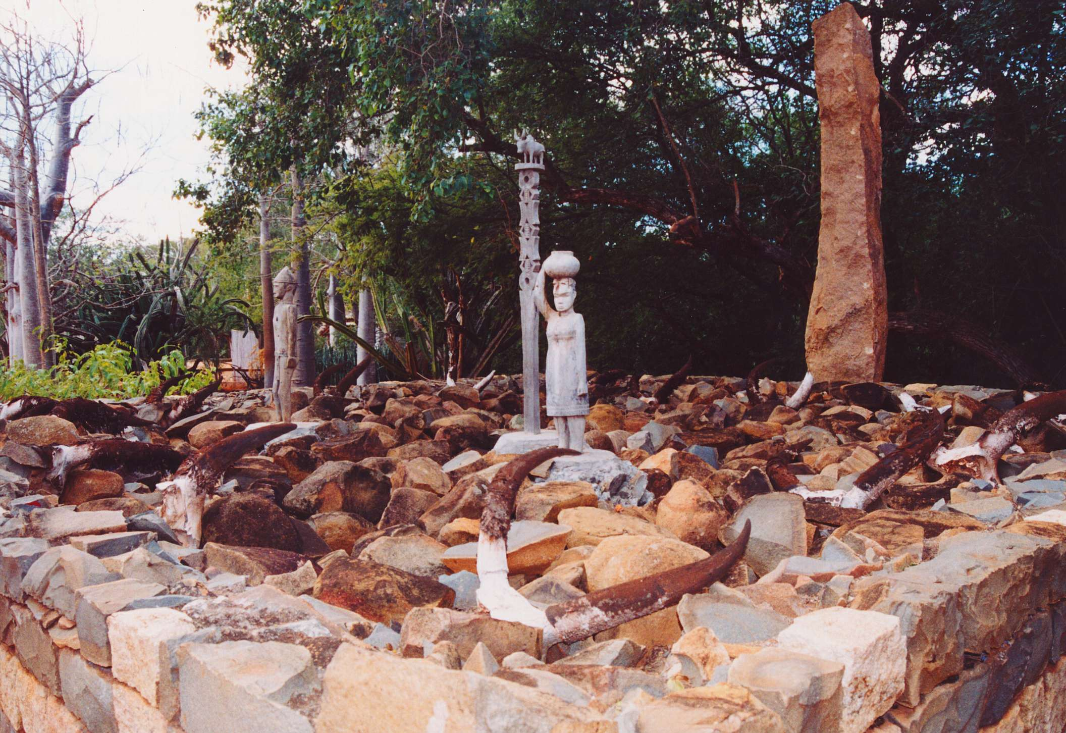 Malagasy tomb decorated with zebu horns, Reserve of Berenty, South Madagascar.